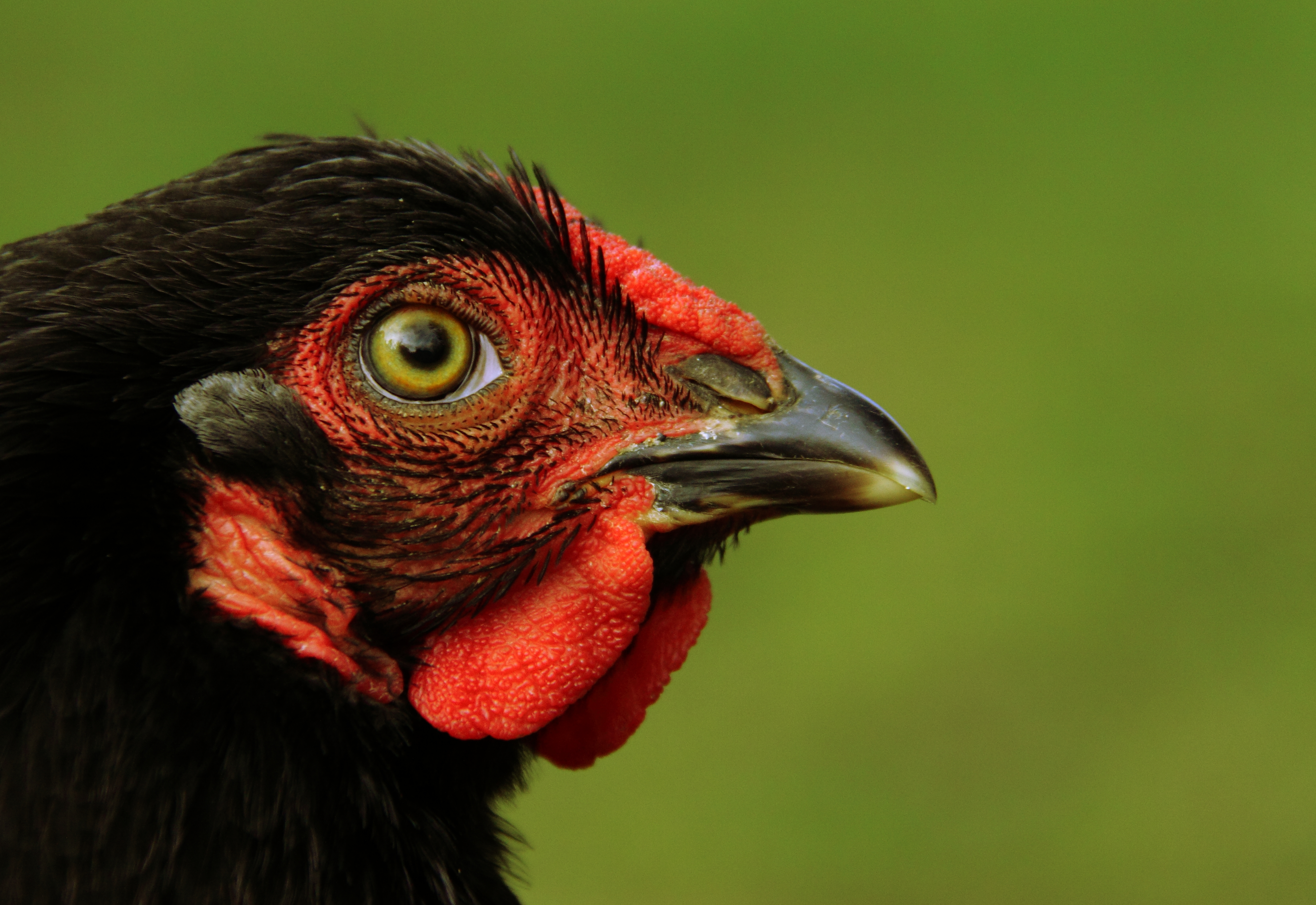 Chicken, Vashon Island, WA